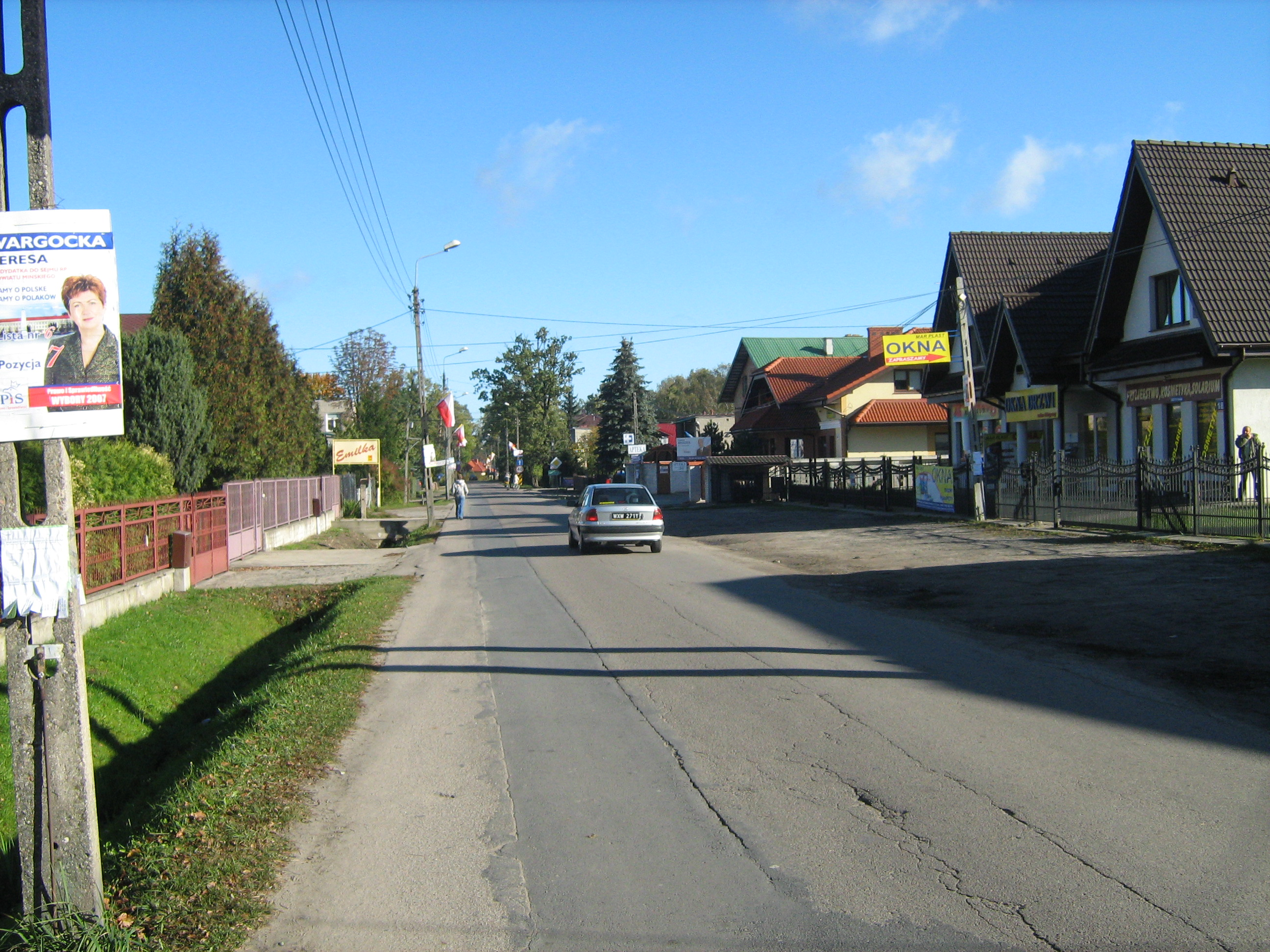 John Paul II street in Halinow(Poland) Ulica Jana Pawła II w Halinowie